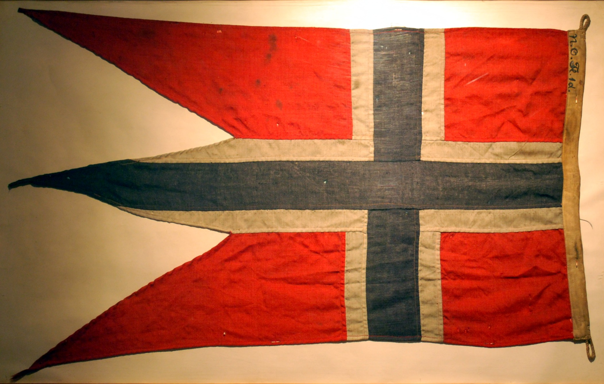 Flag of Norwegian submarine «Kobben» (A-1), 1909.